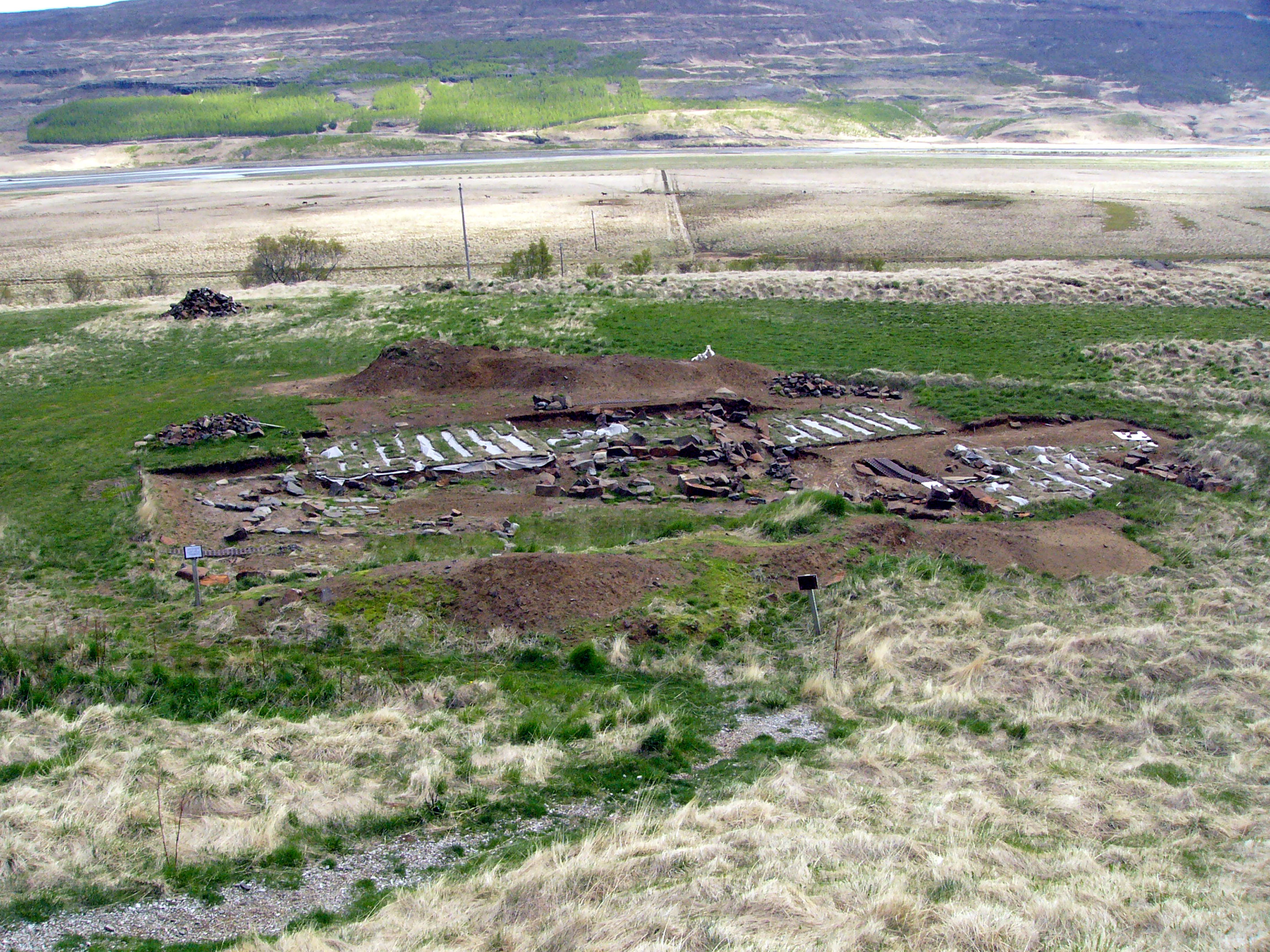 Excavation site of Skiðklaustur in Iceland from the fifteenth century. This was an Augustinian monastery.